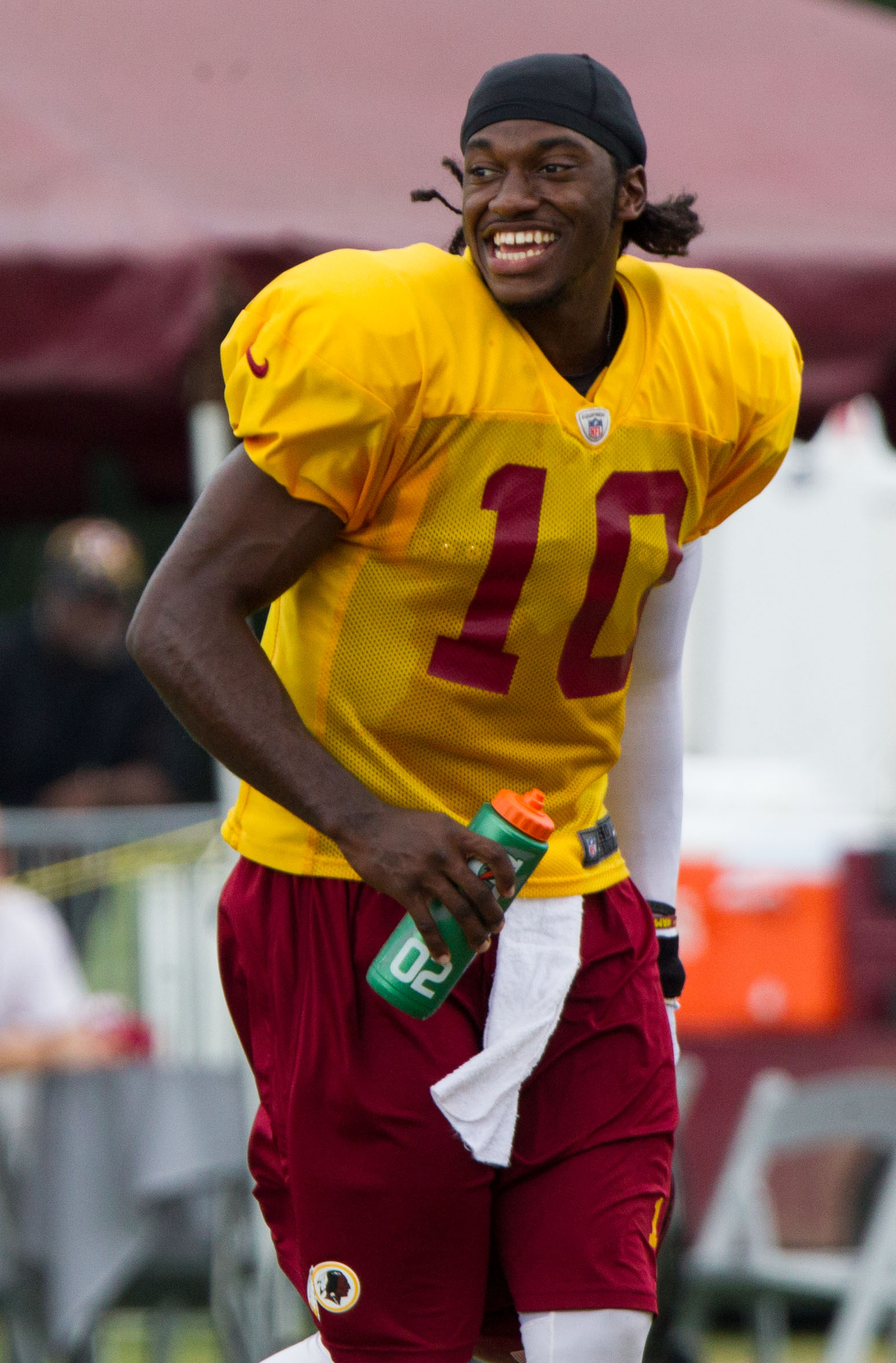 Robert Griffin III at Washington Redskins Training Camp July 31, 2012